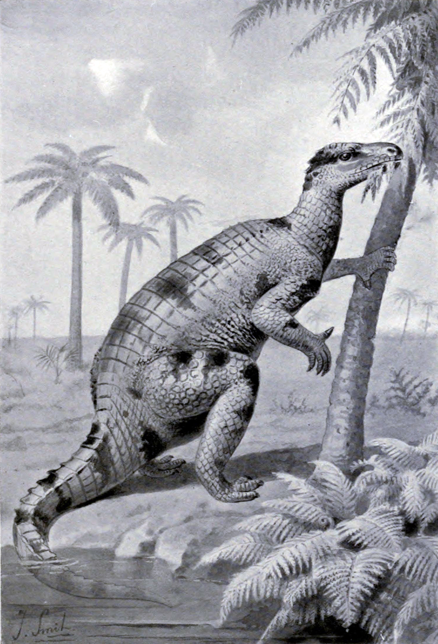 19th century illustration of Iguanodon.